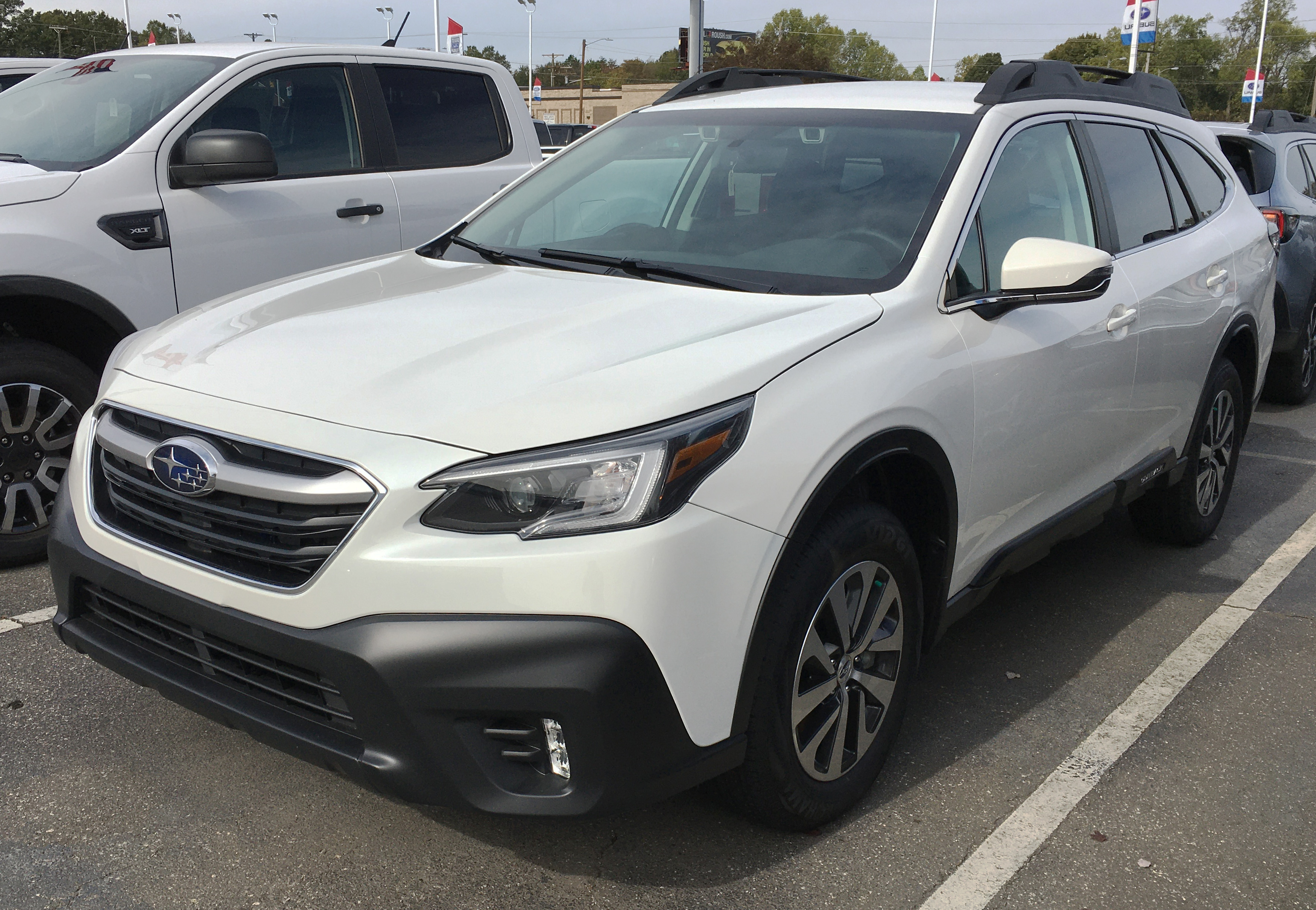 the front of a white 2020 Subaru Outback